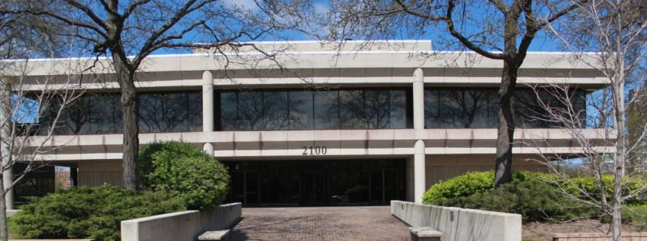 IMDC−Illinois Medical District Center Headquarters — at West Harrison Street in the Illinois Medical District of the West Side, Chicago.